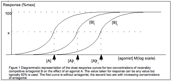 Diagrammatic dose response curves for the activity of an agonist and two concentrations of reversible competitive antagonist.